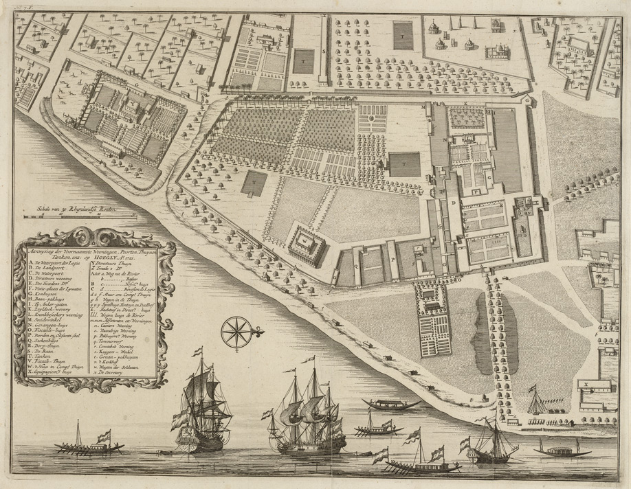 Plan of the Dutch factory at Hooghly-Chinsura in Bengal. 1721 engraving.